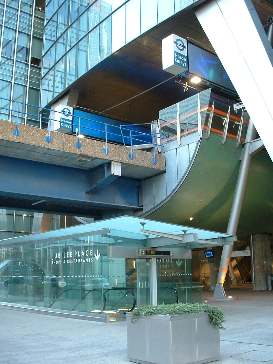 Entrance to Heron Quays DLR station